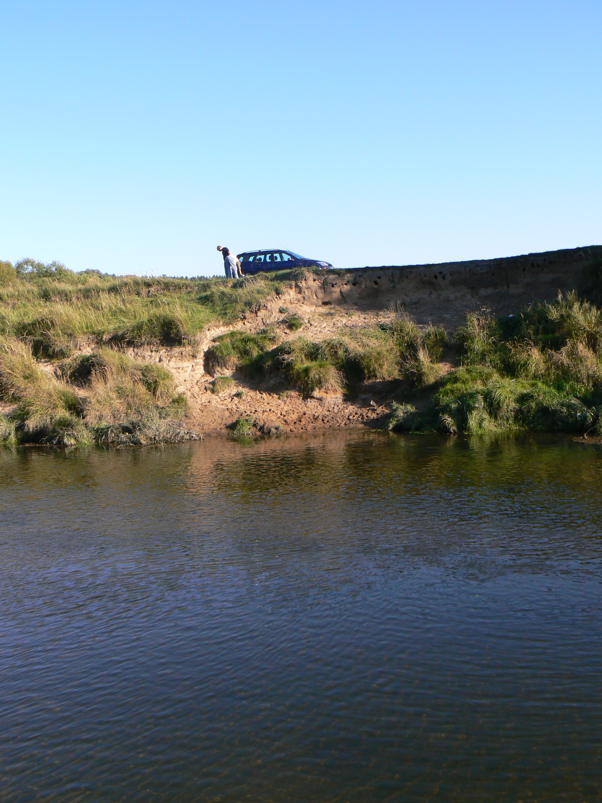 Minija, Riparia, Baubliai